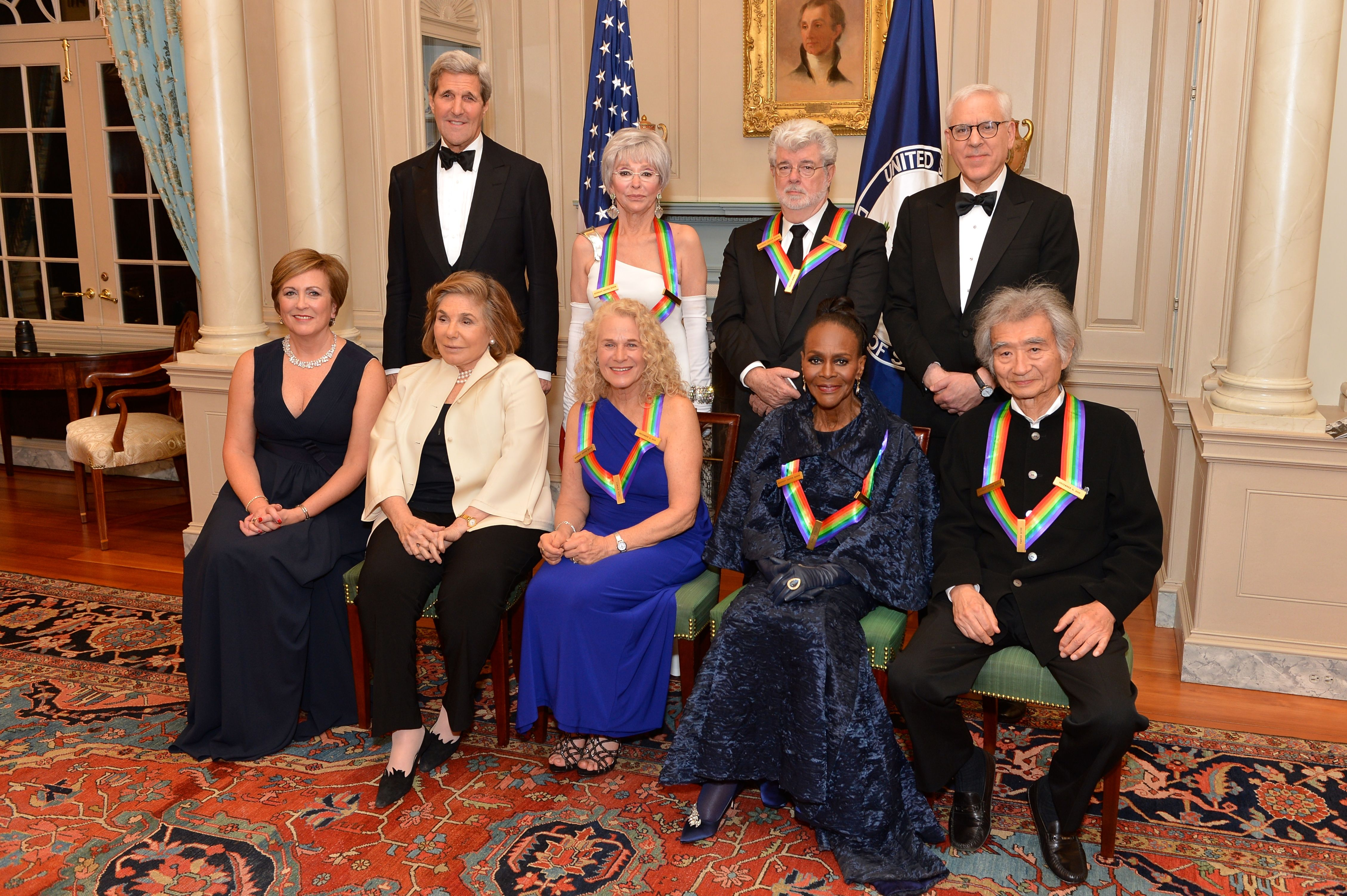 U.S. Secretary of State John Kerry poses for a photo with the 2015 Kennedy Center Honors recipients, singer-songwriter Carole King, filmmaker George Lucas, actress and singer Rita Moreno, conductor Seiji Ozawa, and actress and Broadway star Cicely Tyson, as well as Mrs. Teresa Heinz Kerry, and Kennedy Center Chairman David M. Rubenstein, at the U.S. Department of State in Washington, D.C., on December 5, 2015. [State Department photo/ Public Domain]